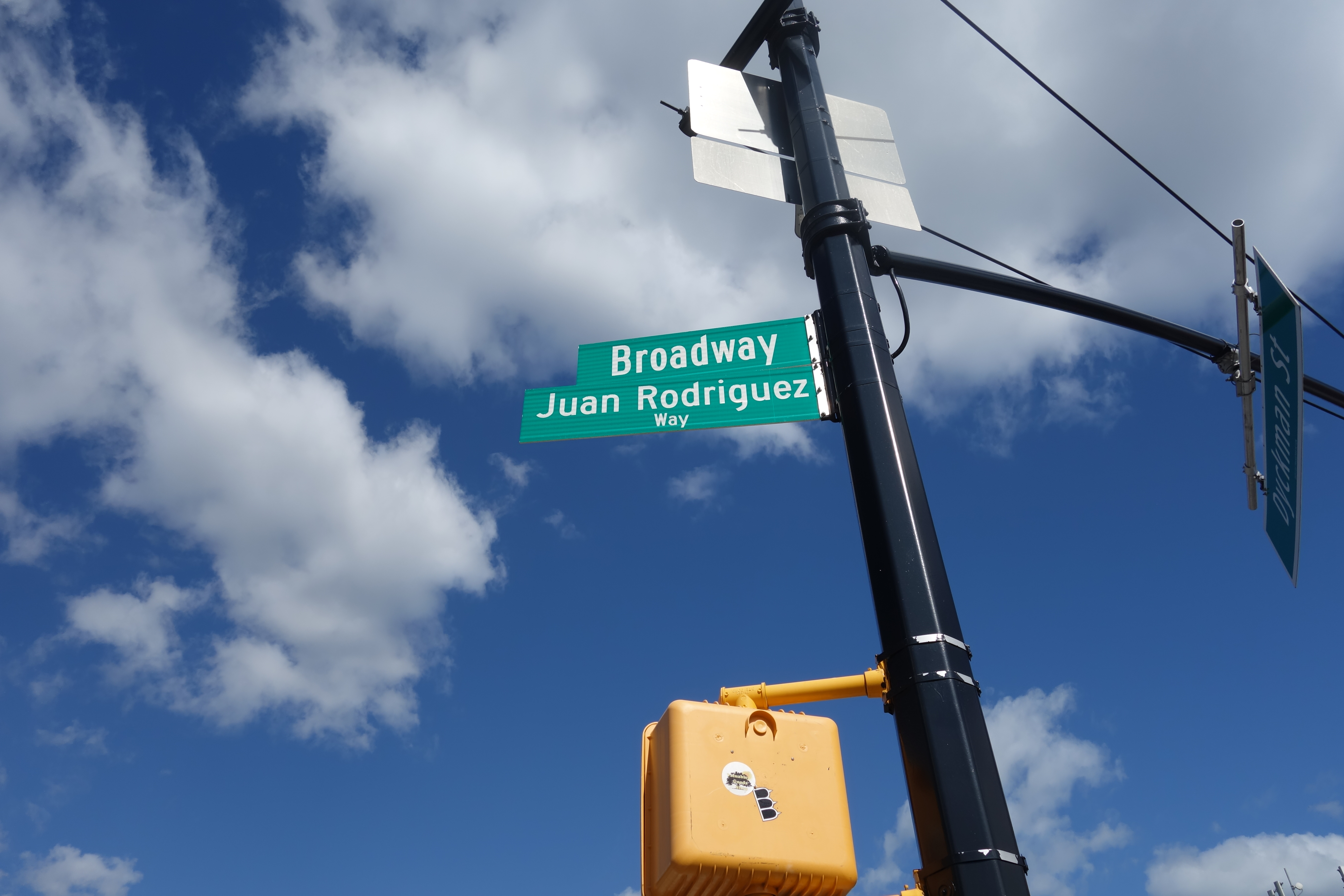 Street signs for Juan Rodriguez Way at the southeast corner of Broadway and Dyckman Street at Riverside Drive in Inwood / Fort George, Manhattan. Broadway here is named after Rodriguez, an Afro-Latino from today's Dominican Republic said to be the "first immigrant" or first non-Native American to settle in Manhattan in 1613 according to CUNY scholars.